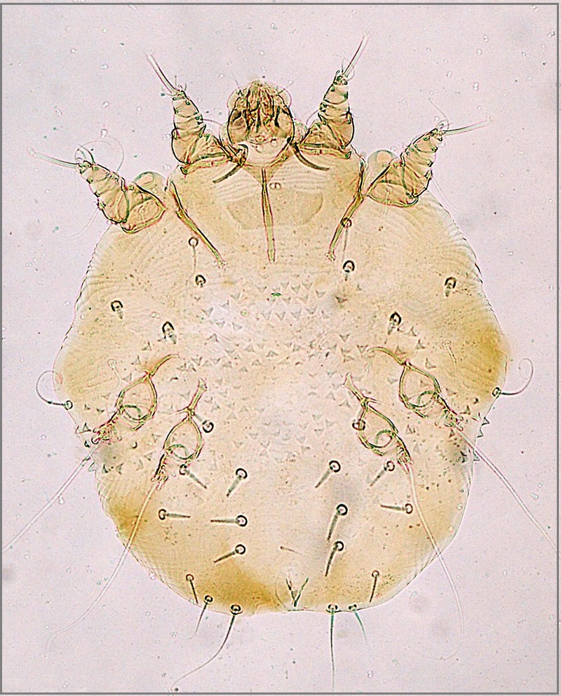 Photograph of parasitic mite of domestic animals.